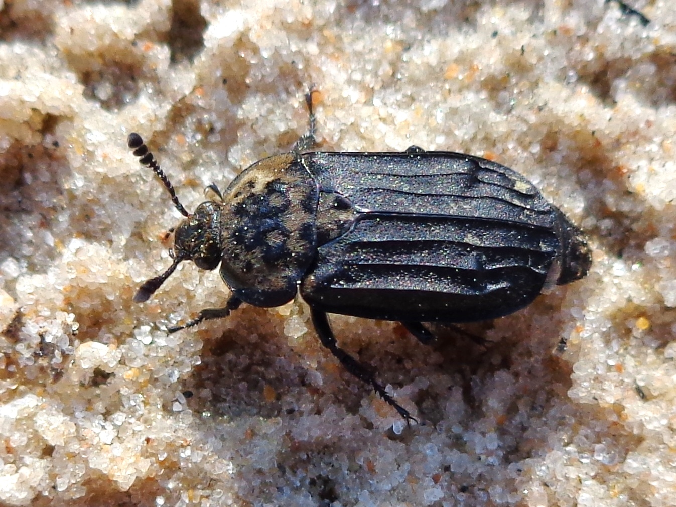 Thanatophilus sinuatus. Found in Vakarbuļļi coast in Rīga town near Bolderaja, Latvia